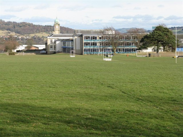 Perth Academy and playing fields